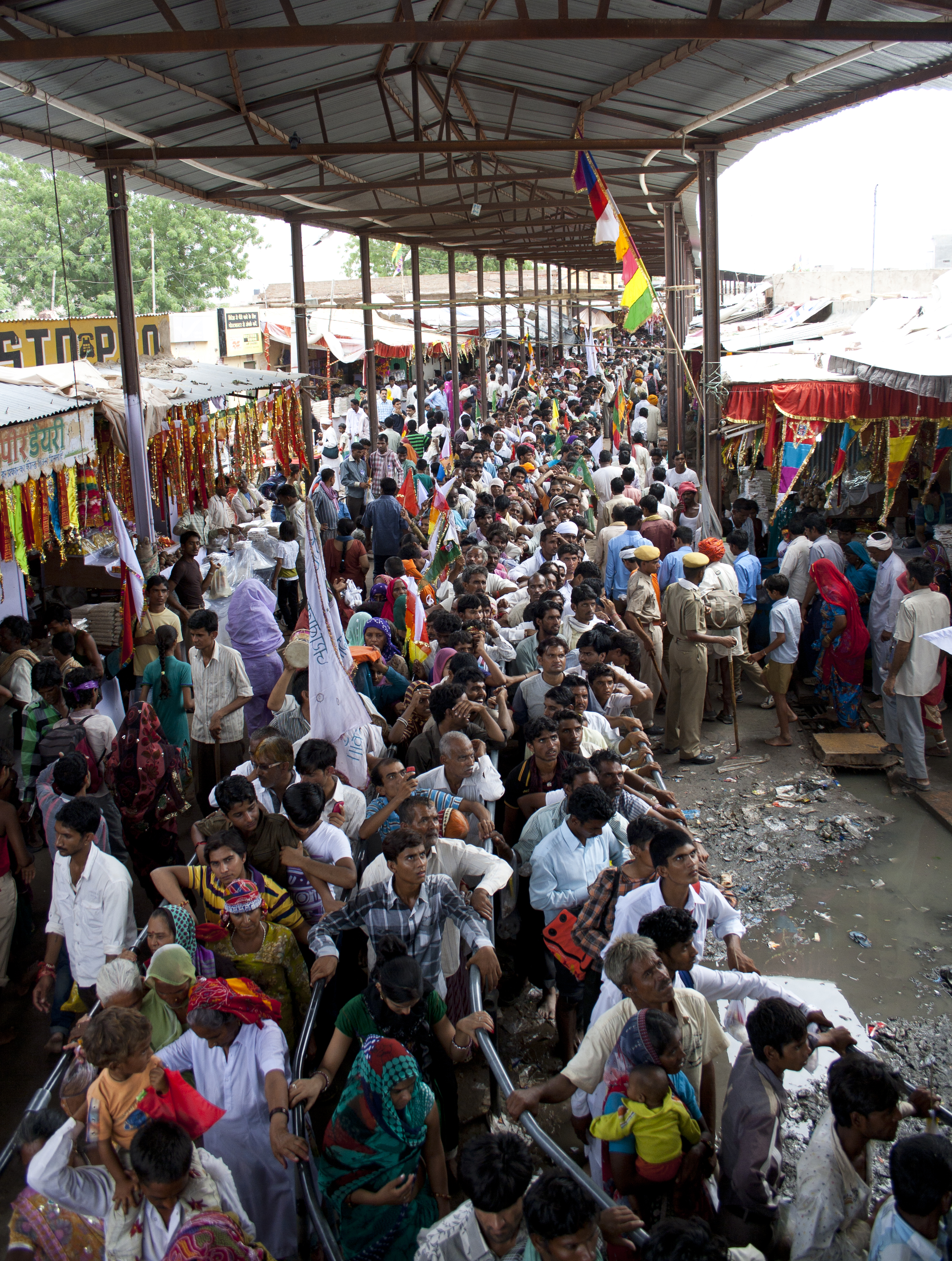 A two month long carnival in August and September happens every year during which devotees from many states comes to Ramdevra to pay their homage to Baba Ramdevji's samadhi. Most of the devotees walk miles bare footed.